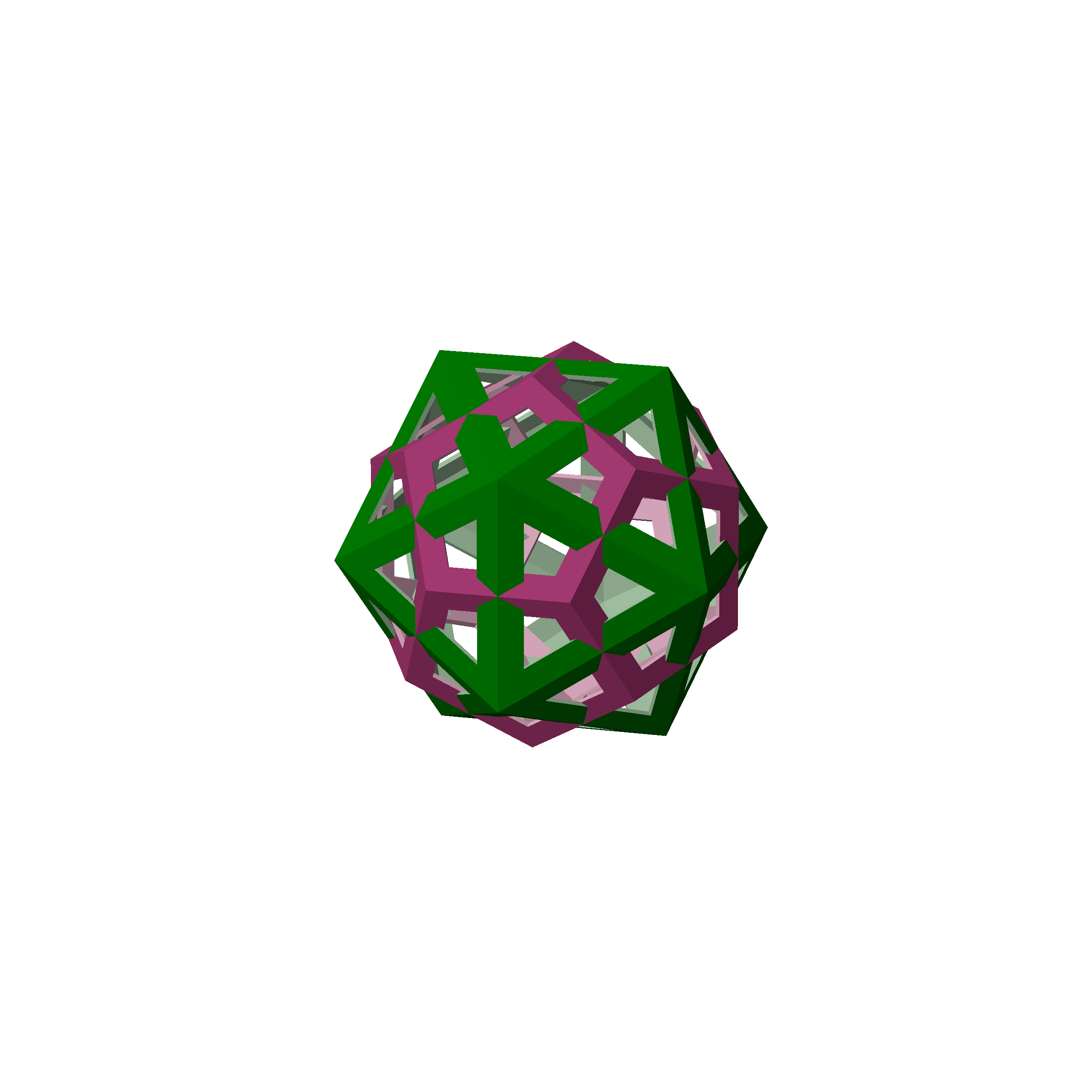 Image set Green and violet Platonic skeletonsPart of Skeletons of polyhedra (mostly green and violet) tetrahedron cube octahedron dodecahedron icosahedron Dual compounds (above) and Petrie polygons (below) of Platonic solids The images in this set have matching sizes. Please do not overwrite them with cropped versions. This image was created with POV-Ray.